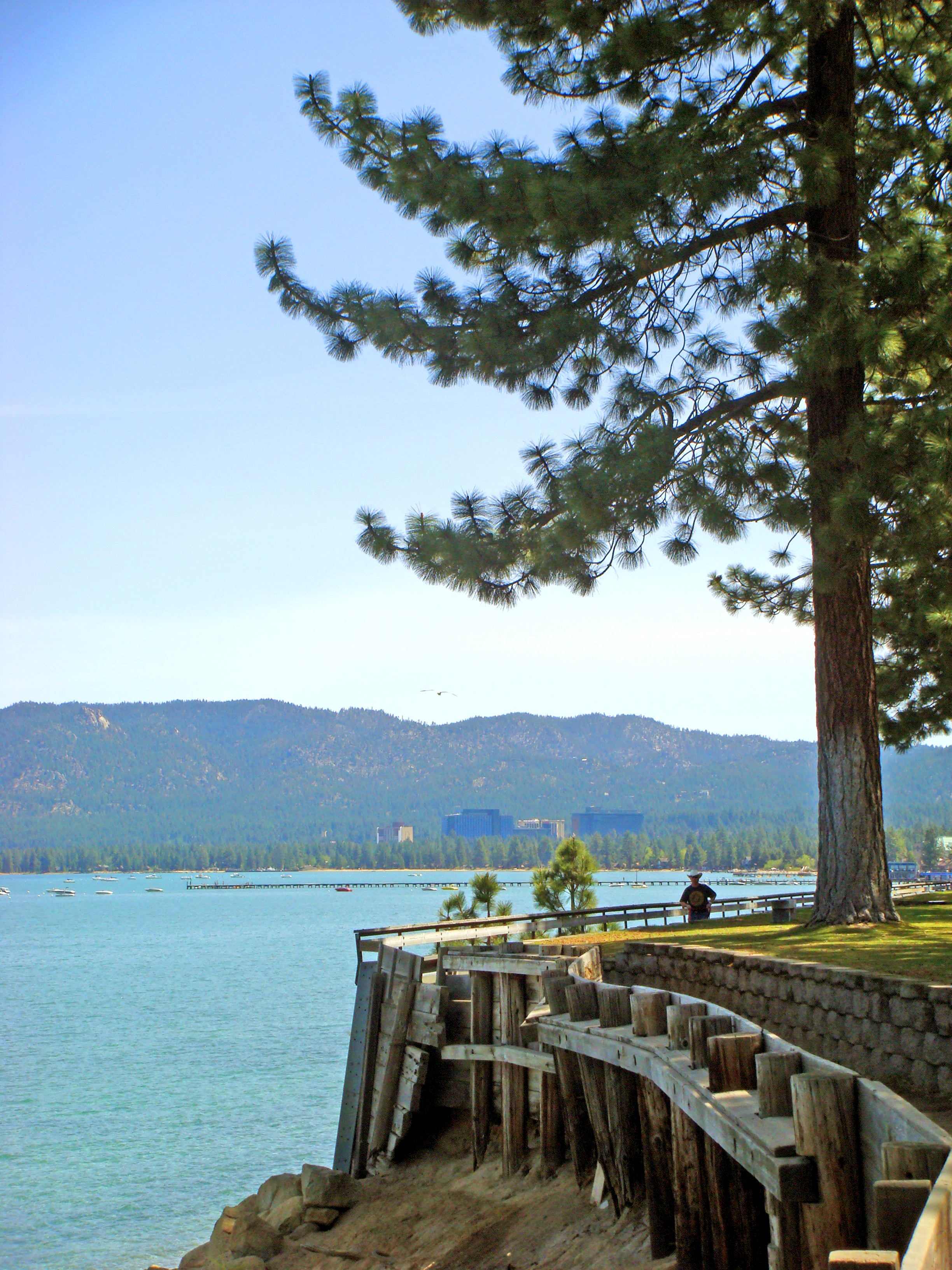 Beach front walkway South Lake Tahoe, Memorial Day weekend 2007.